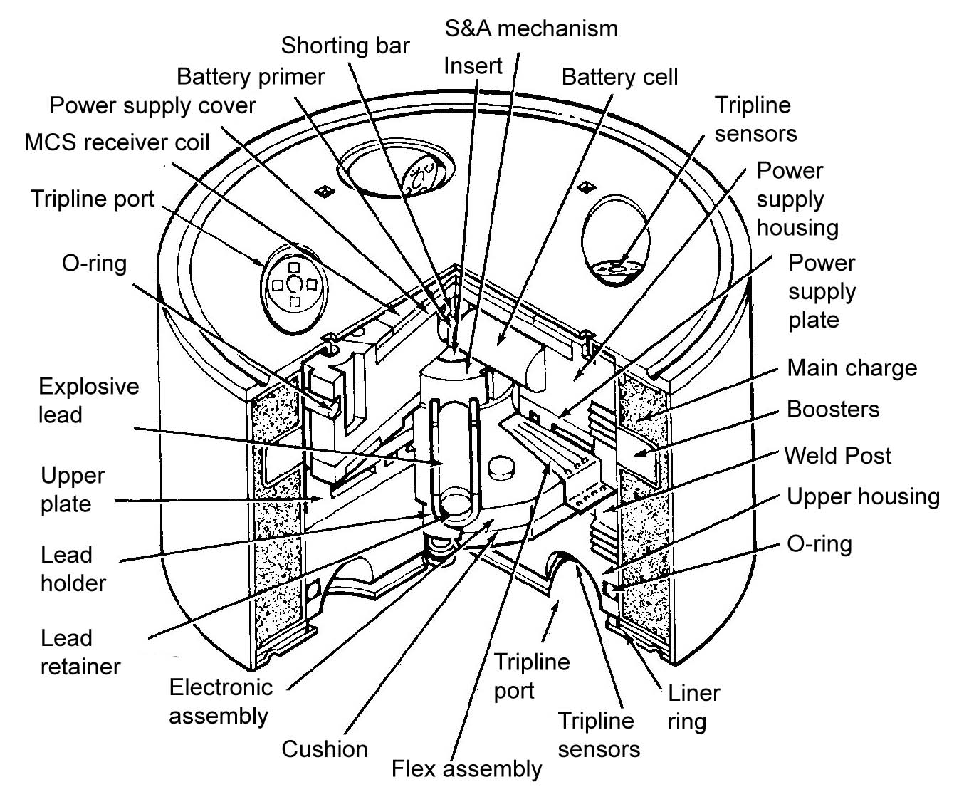 A cutaway of an M74 anti-personnel mine.